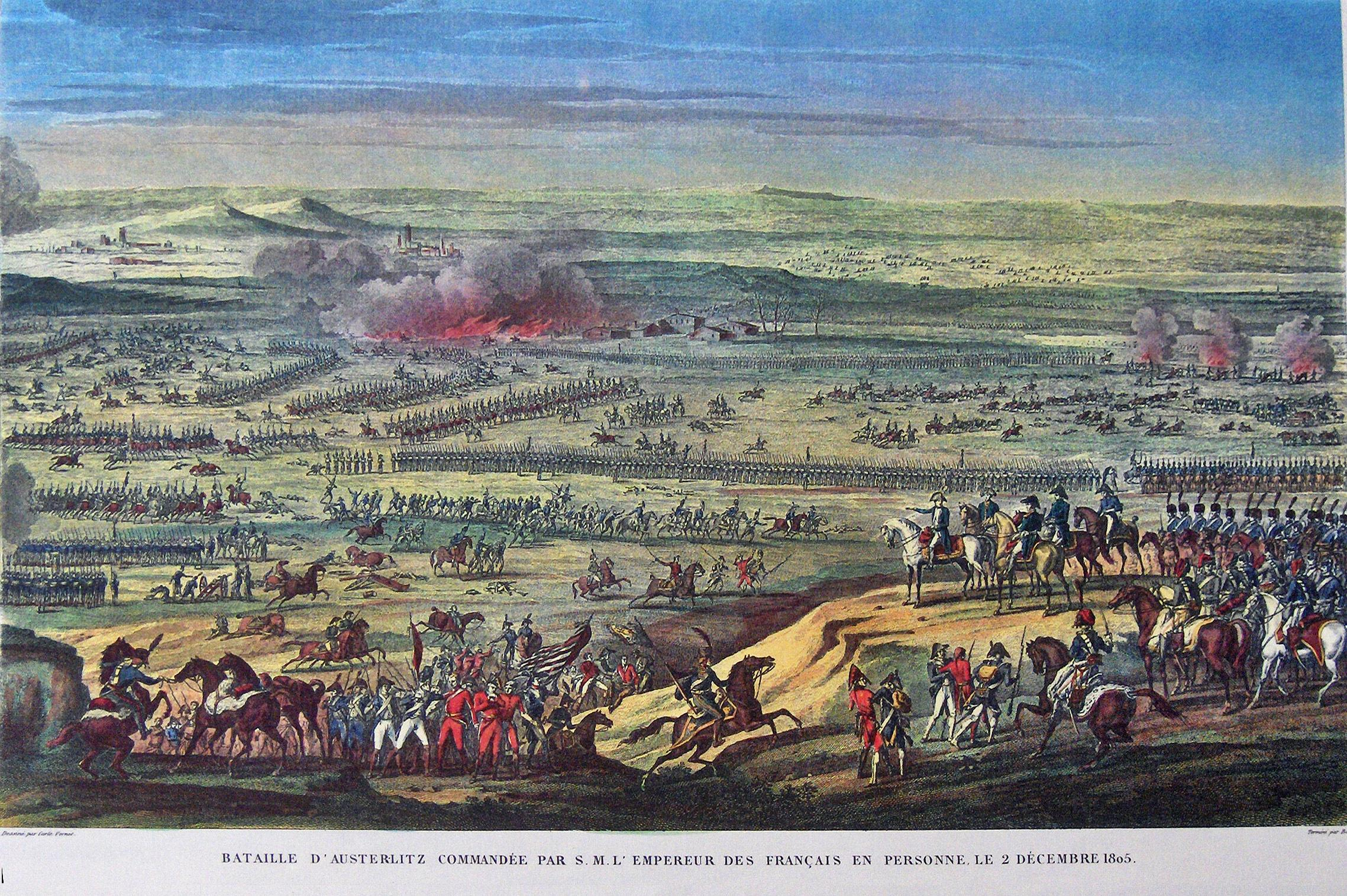 "Napoleon at Austerlitz" colored litho (ordered by the emperor Napoleon) by Antoine Charles Horace Vernet (called Carle Vernet)(1758 - 1836) and Jacques François Swebach (1769-1823)